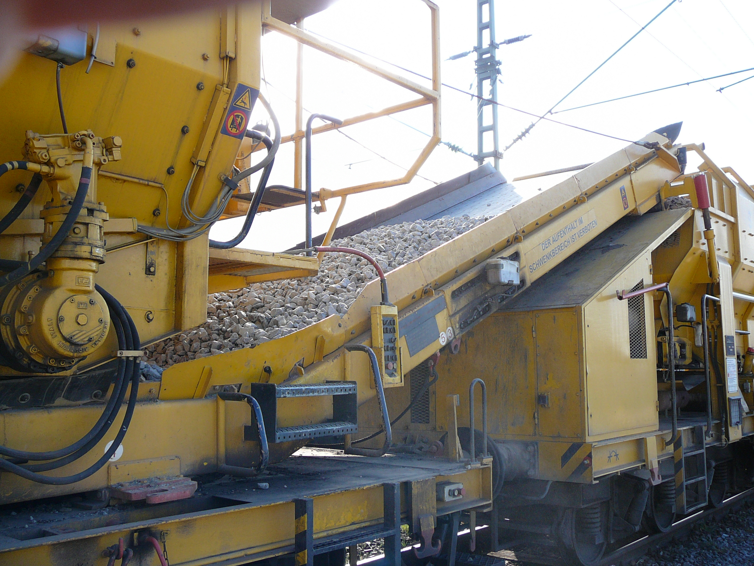 The rubble is being moved from one waggon to the next (all are connected in a line) via a conveyor belt.